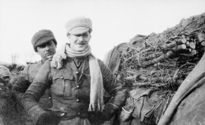 John Aidan Liddell VC. Photograph taken during his service with the Argyll & Sutherland Highlanders on the Western Front, showing Liddell in the front of a group.